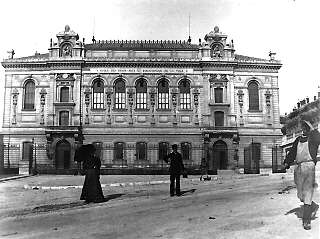 Palais des Arts of Marseille, built from 1864 to 1874 to designs of the architect Espérandieu. The building housed the School of Fine Arts and the Municipal Library. Today it is the home of the Conservatoire National à Rayonnement Régional "Pierre Barbizet" Marseille. It should not be confused with the Grand-Théâtre (also called the Salle Bauveau) which was built in 1787. See Palais des Arts (Marseille).